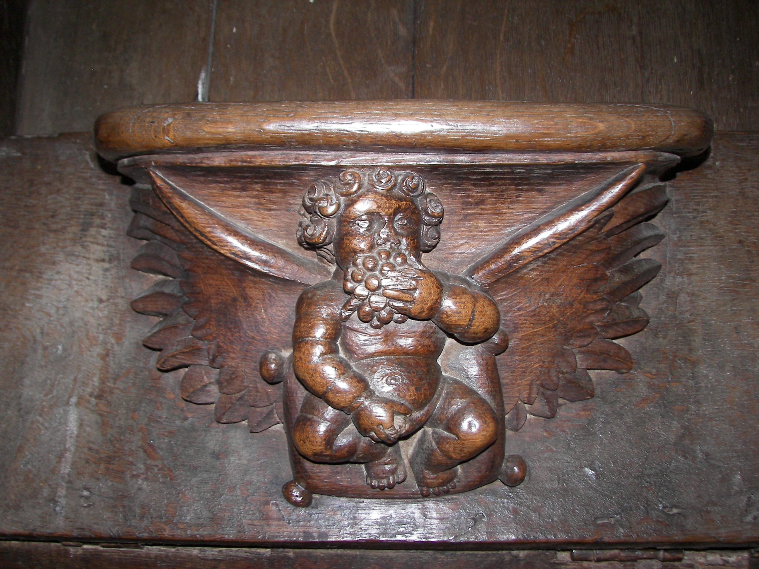 Misericord from church Saint-Prix in Noizay (Indre-et-Loire/France)